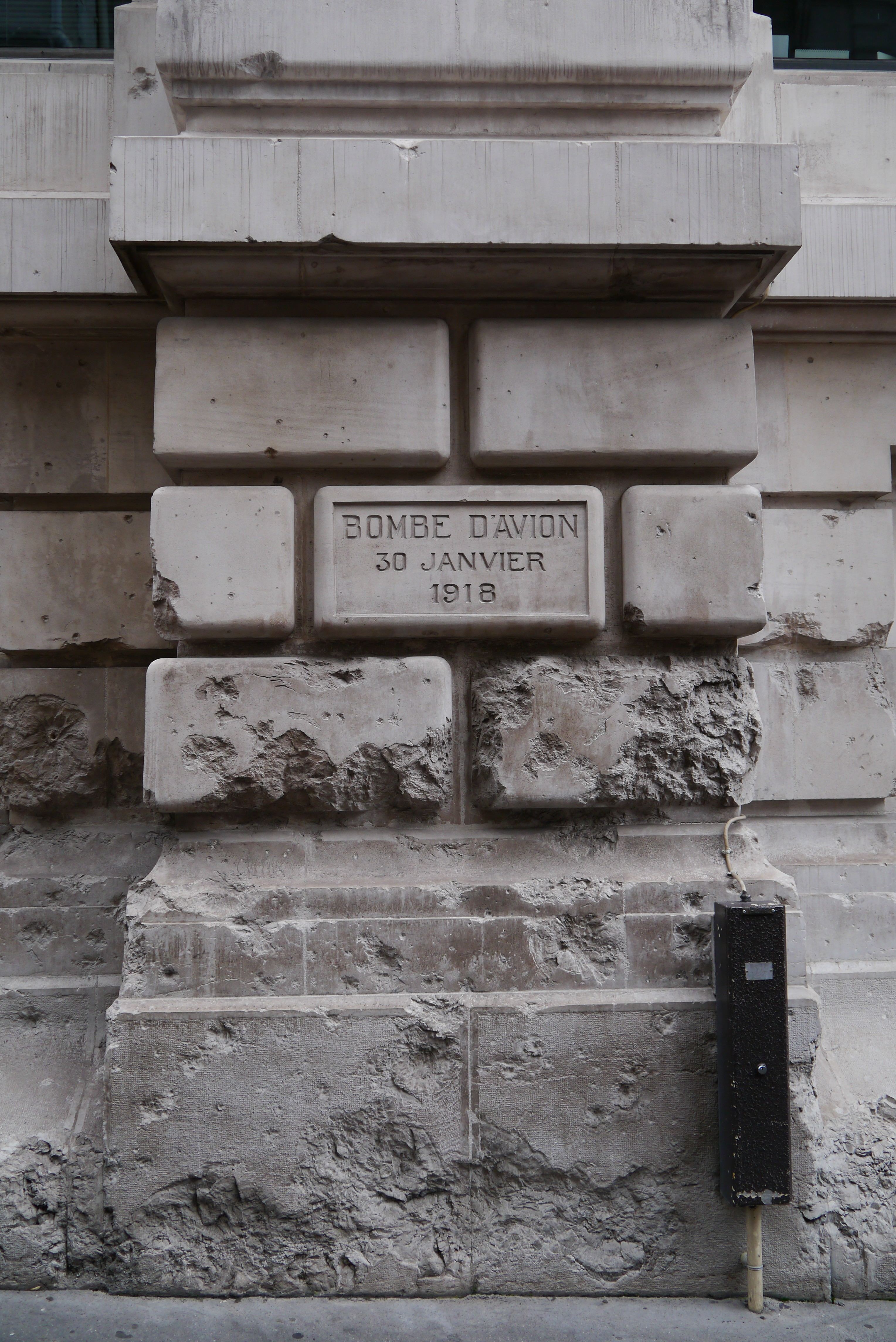 Crédit Lyonnais headquaters, Paris 2nd arrondissement. Bomb impact on wall, 15 rue de Choiseul. .